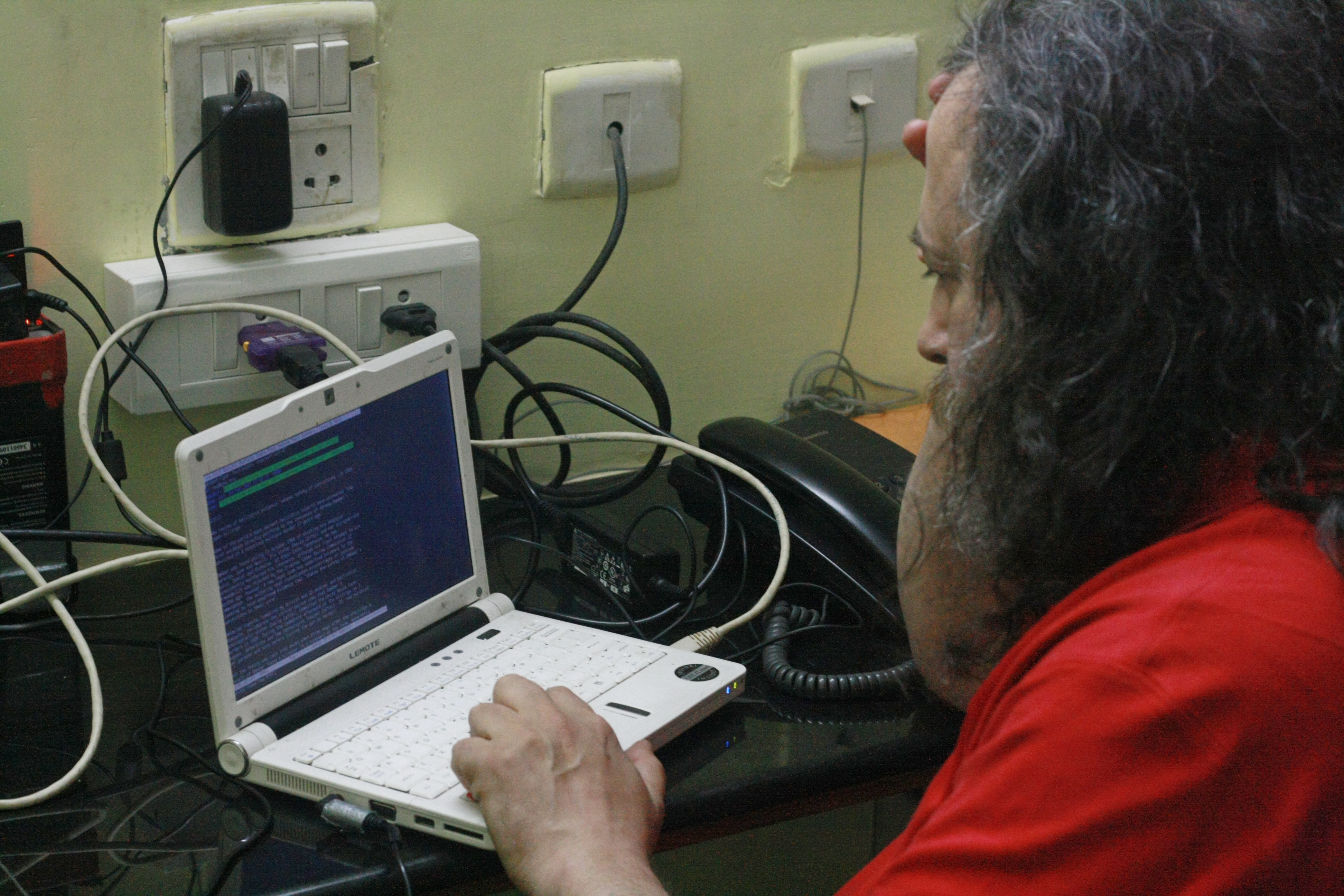 Richard Matthew Stallman using his Lemote machine at Indian Institute of Technology Madras, Chennai before his lecture on 'Free Software, Freedom and Education' organized by Free Software Foundation, Tamilnadu, India.